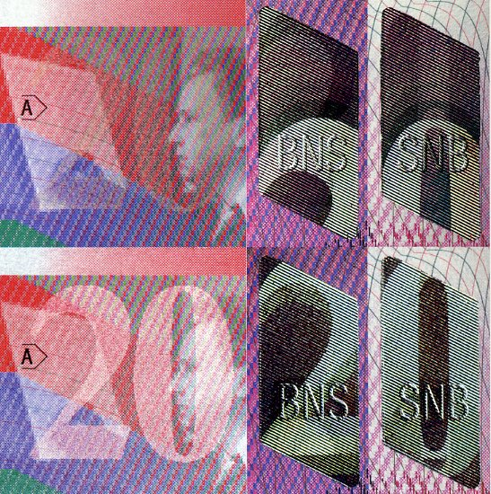 Some security features (Iriodin digits and Kinegram) of the 20 Swiss francs banknote